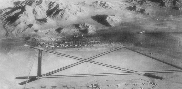 Wendover Army Airfield – 1943